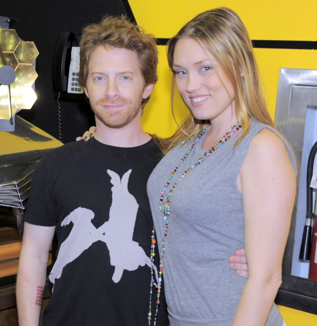 Seth Green & Clare Grant Visits Goddard Space Flight Center 2011.